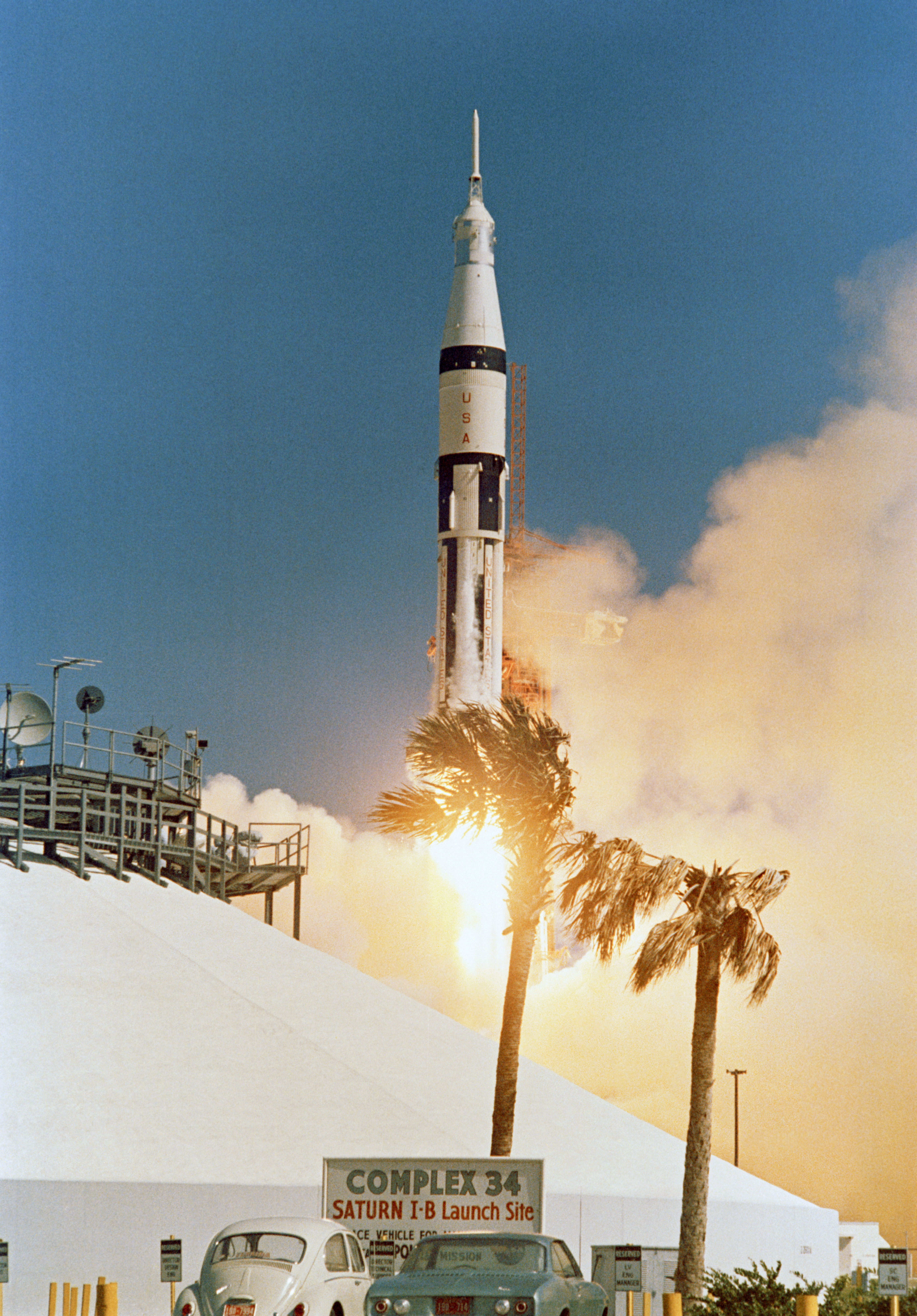 The Apollo 7/Saturn IB space vehicle is launched from the Kennedy Space Center's Launch Complex 34 at 11:03 a.m. on Oct. 11, 1968.